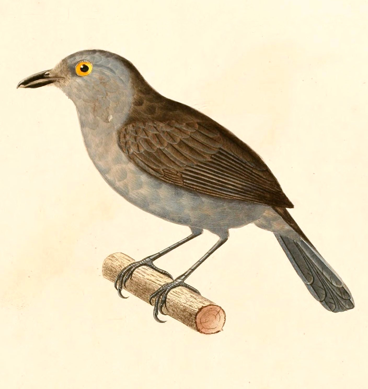 « Tamnophilus fuliginosus » = Thamnophilus schistaceus (Plain-winged Antshrike)